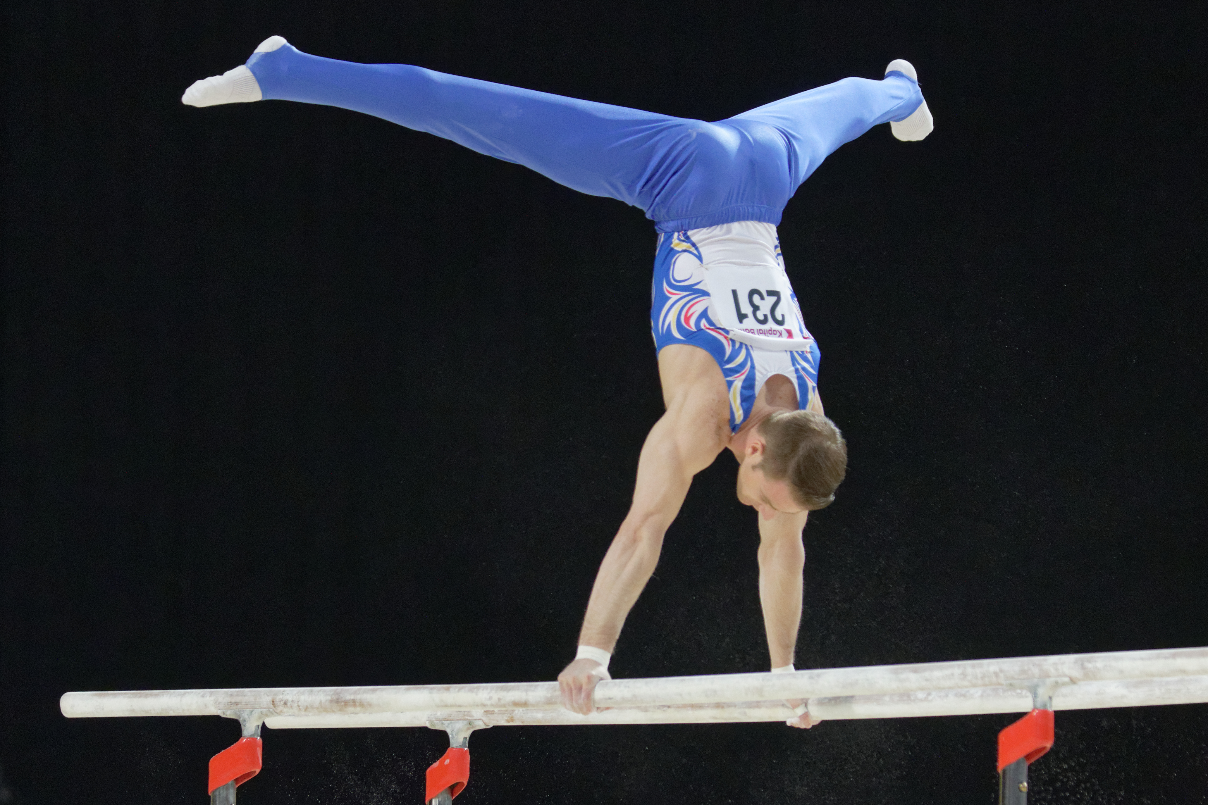 2015 European Artistic Gymnastics Championships.